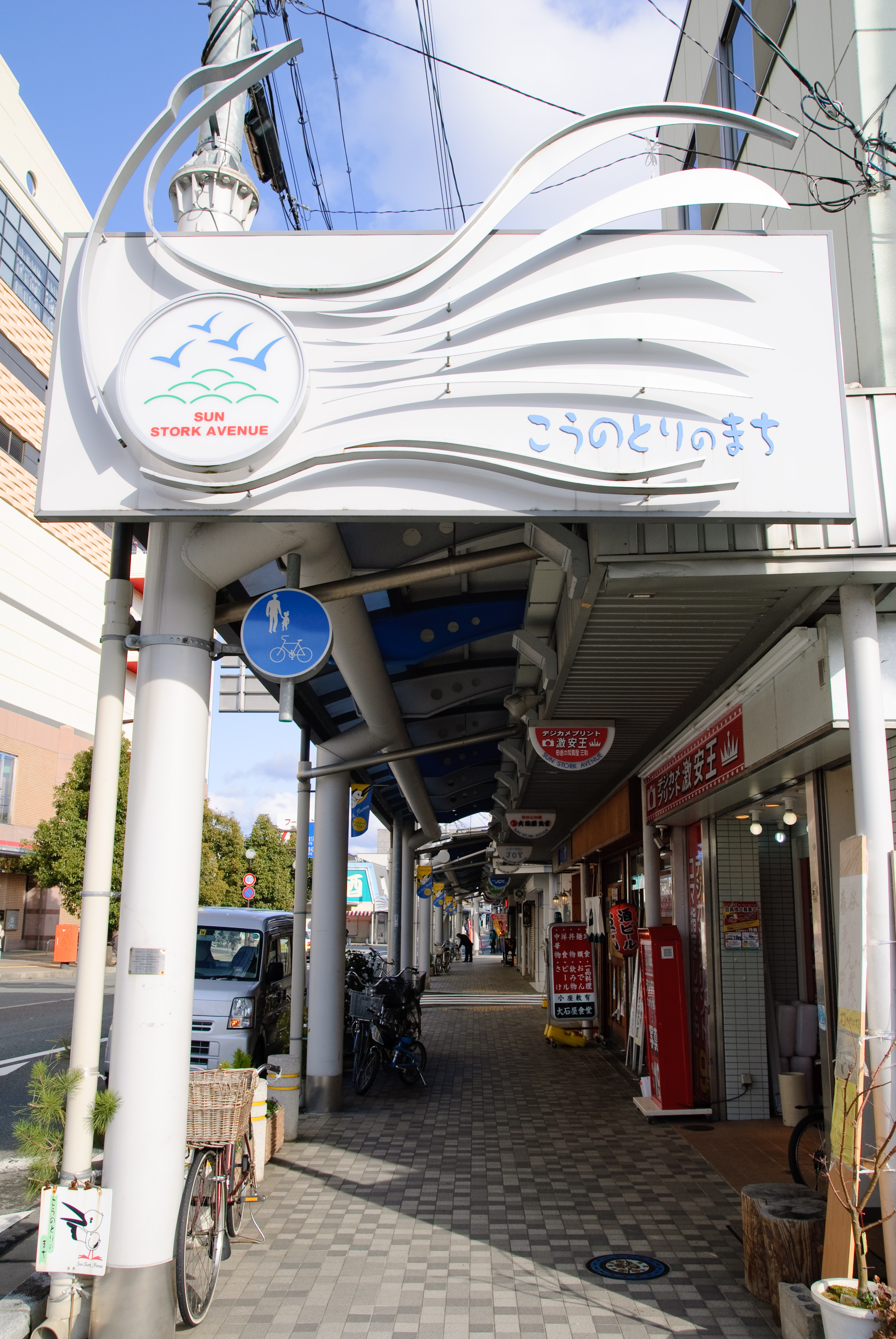 Shopping Street "Sun Stork Avenue"